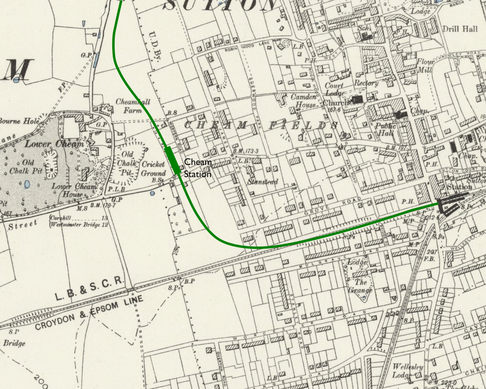 Proposed location of Wimbledon and Sutton Railway's unbuilt Cheam station and route of line superimposed on an Ordnance Survey Map.